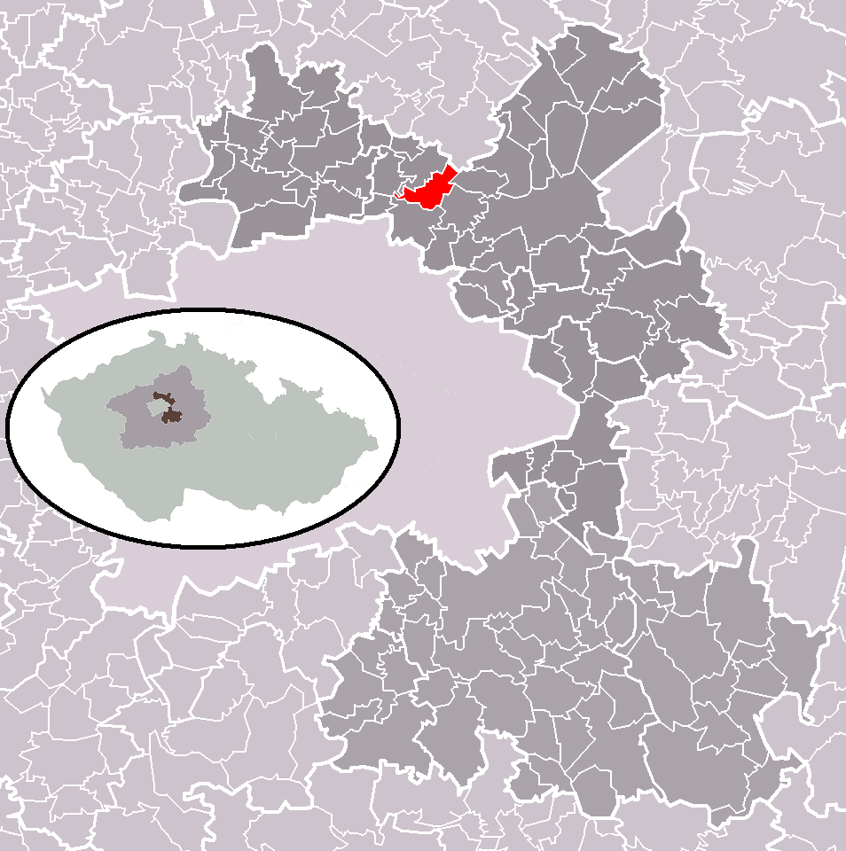 Location of Sluhy municipality within Prague-East District and administrative area of Brandýs nad Labem-Stará Boleslav as a Municipality with Extended Competence.